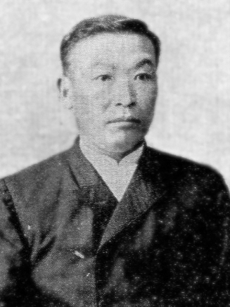 Watanabe Kunitake (渡邊國武, 1846–1919) was a government official and politician in the Meiji Era.